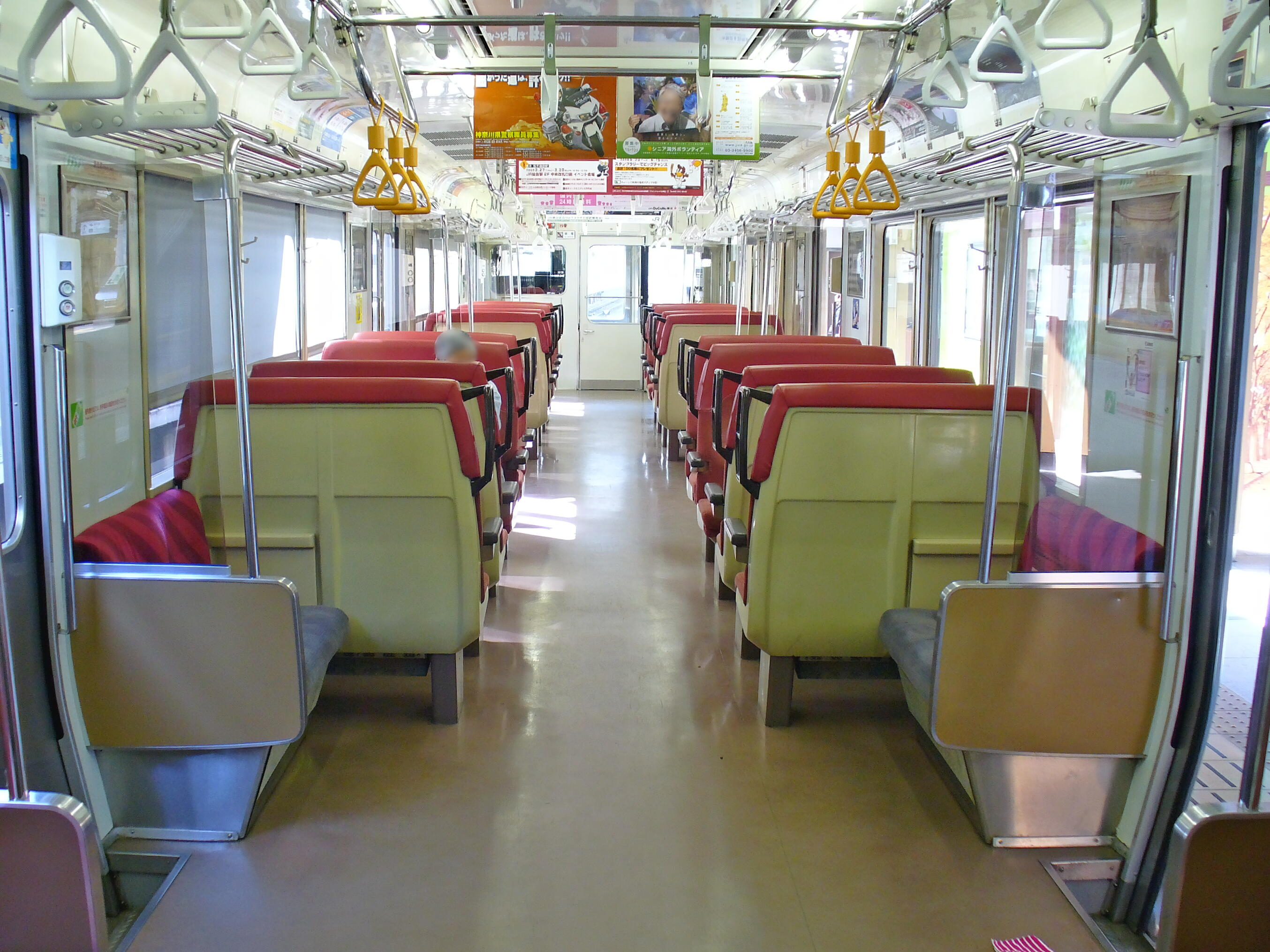 Interior of a JR East 719-0 series EMU